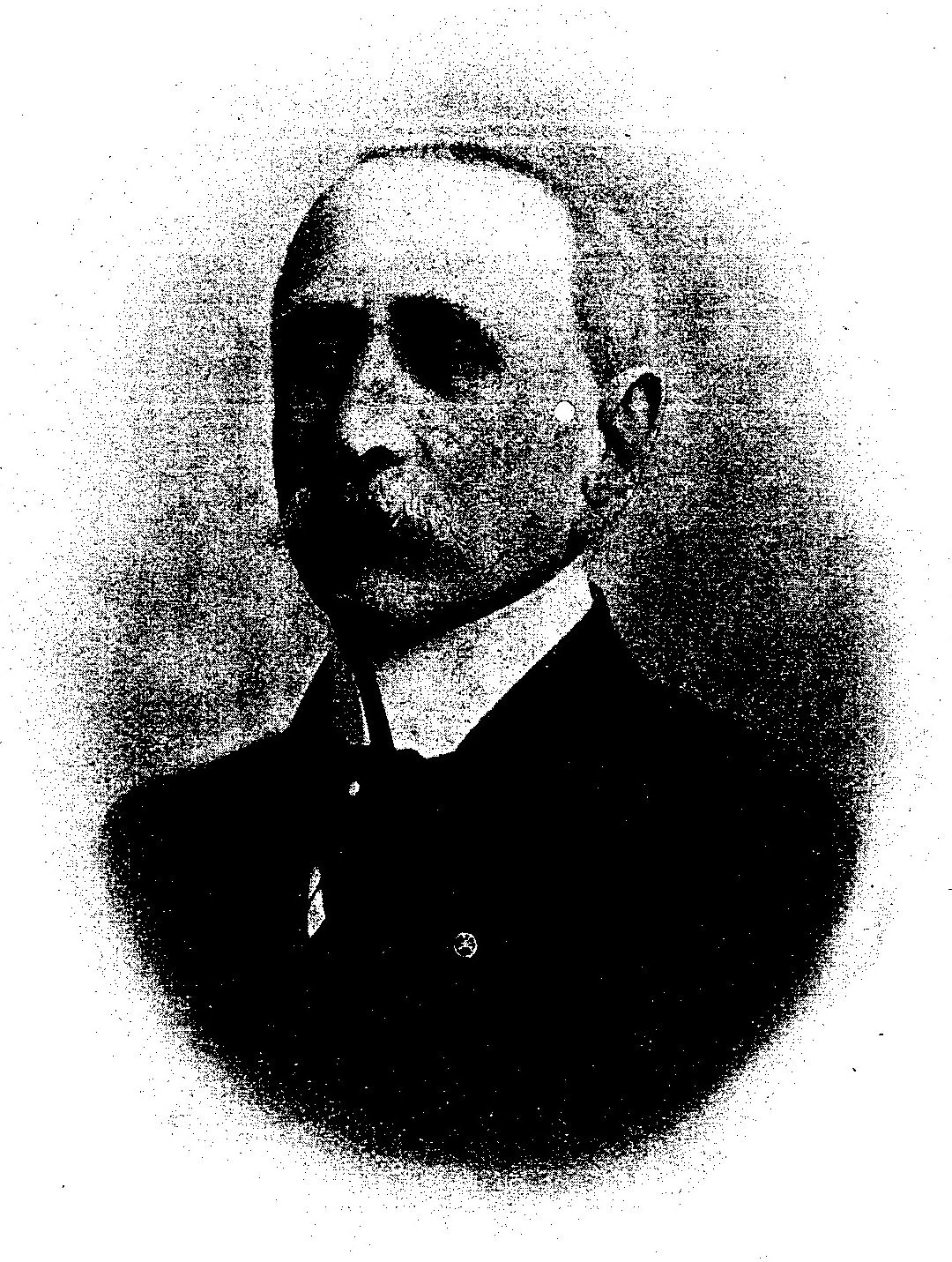 Arthur Napoleão (1843–1925), Brazilian pianist and composer. A portrait found in his 18 Études pour virtuoses, Op.90 published by Schott in 1910.